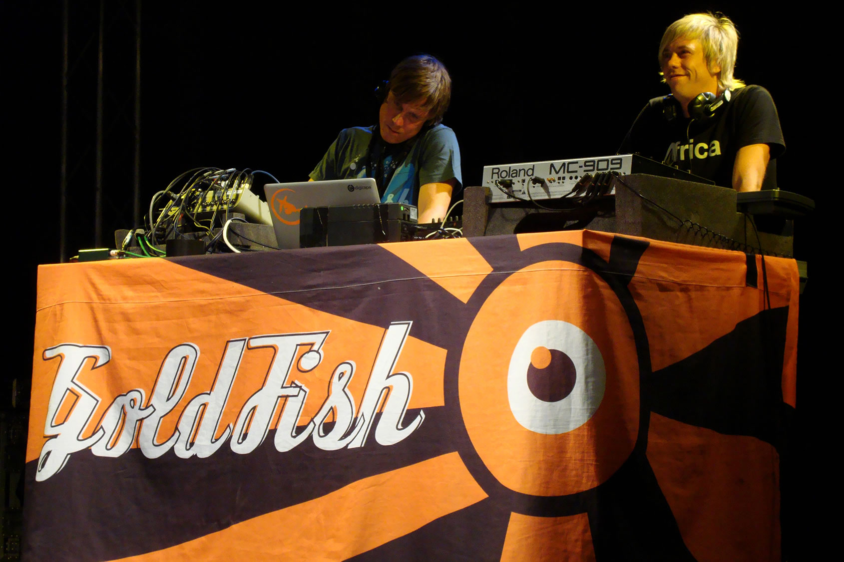 South African electonic sensation Goldfish entertained spectators after the final whistle of the 2009 Sony Fevapitch competition.